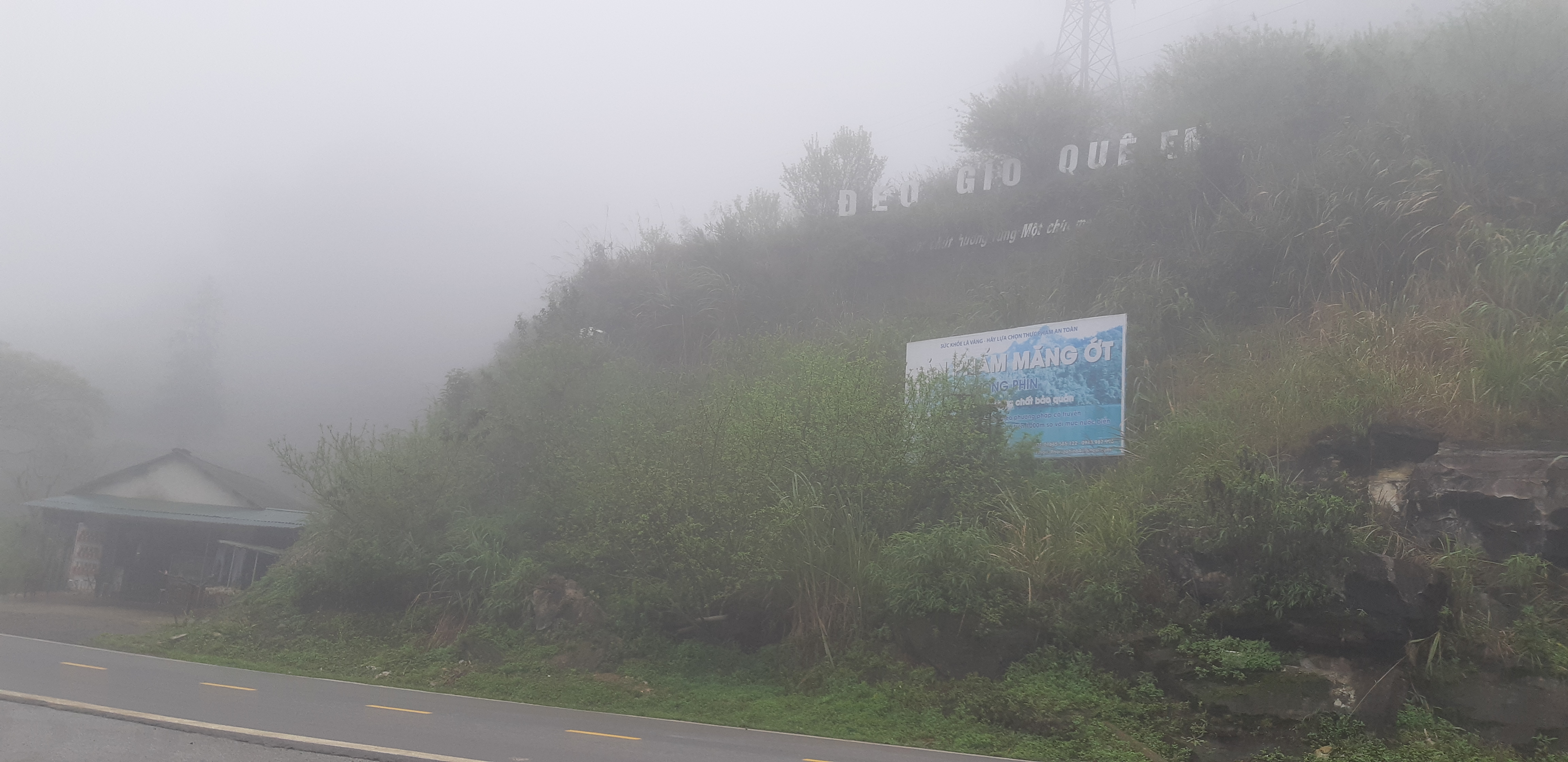 Gio Pass in Bac Kan province, Vietnam. Photographed by myself on 2019 March 09.